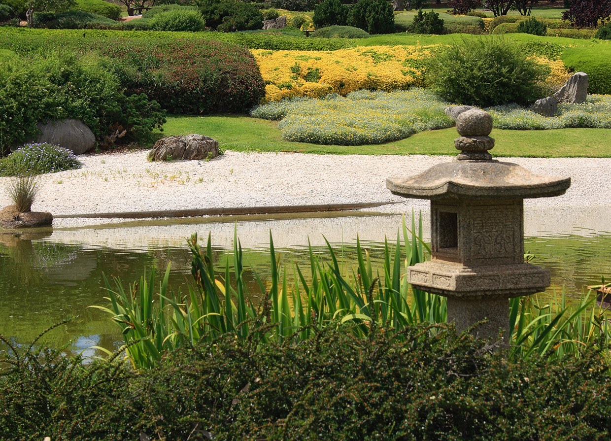 A lake and some shrubs at the Cowra Japanese Gardens in New South Wales, Australia.